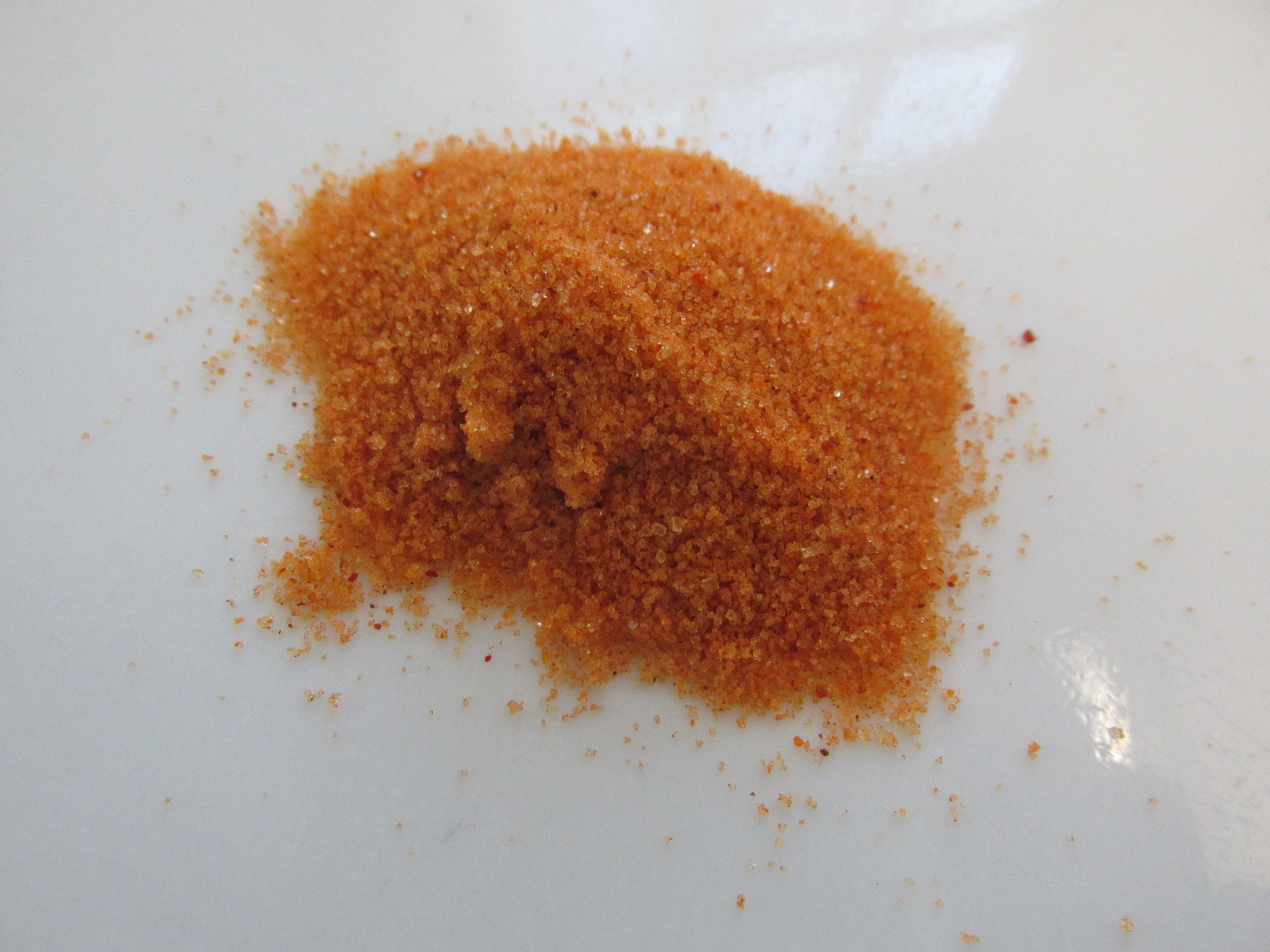 Seasoned Salt, Penzeys Spices, Arlington Heights Massachusetts - 2014